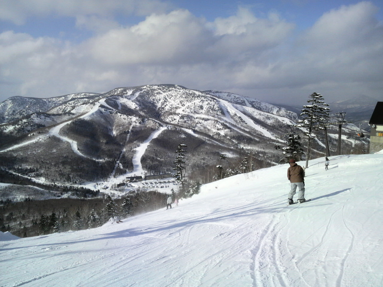 Mount Yakebitai seen from the SSE. Taken from Mount Higashidate.